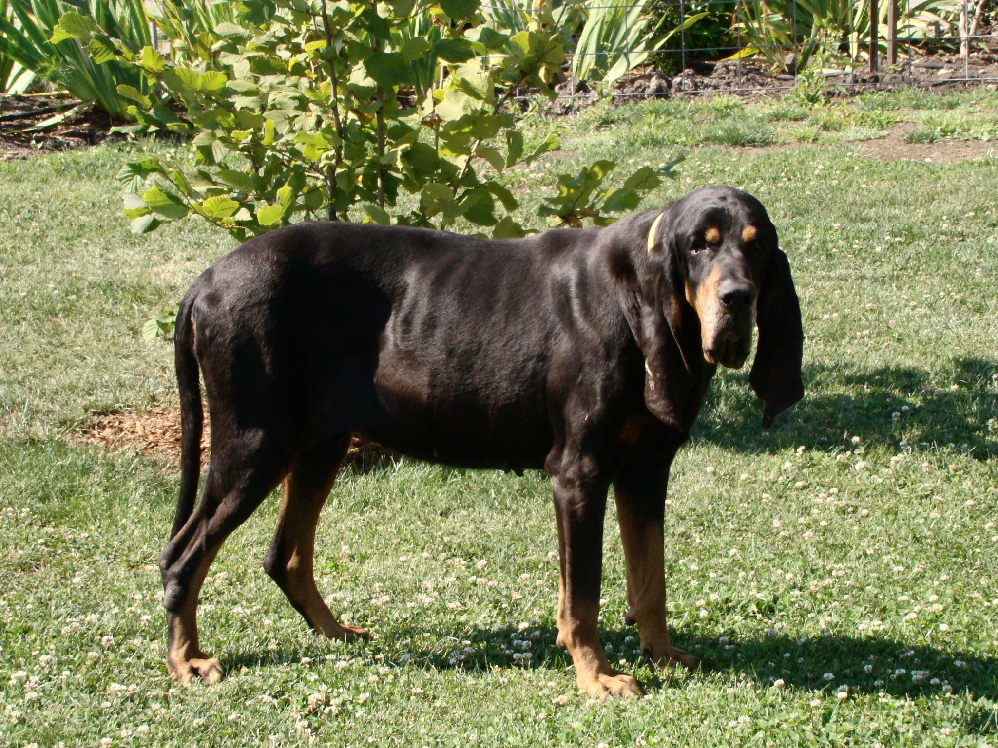 My grandmas coonhound =)